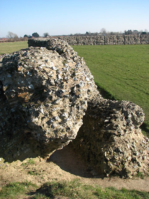 The Roman fort of Gariannonum - north wall View east along north wall, towards a section of east wall. Originally a Norman earthwork motte and bailey fortress that had been built within the stone walls of the Roman fort of Gariannonum, dated to the late 3rd century. The first recorded motte in England dates from 1051, built by French castle builders for the English king in Hereford; by the death of William the Conqueror in 1087 they were a common feature. At Burgh Castle, the motte with surrounding ditch was raised over the wall at the southwestern corner, and a rampart supporting a timber palisade was constructed on the western side. During the 18th century the motte was levelled and only fragments of the earthworks remain. The site, owned by English Heritage, is freely accessible; it offers magnificent views across the marshes extending westwards.